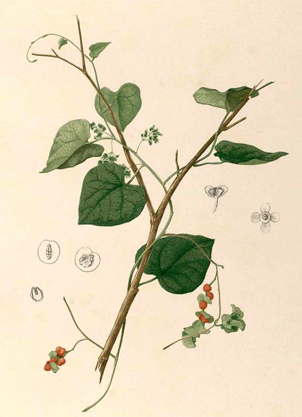 Plate from book